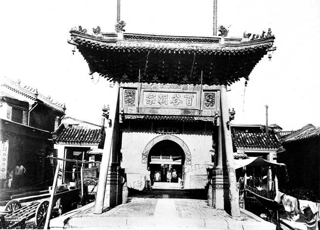 Matsu temple gate — at the Tianhou Gong ("Heavenly Empress Palace") in Nankai District, Tianjin, China